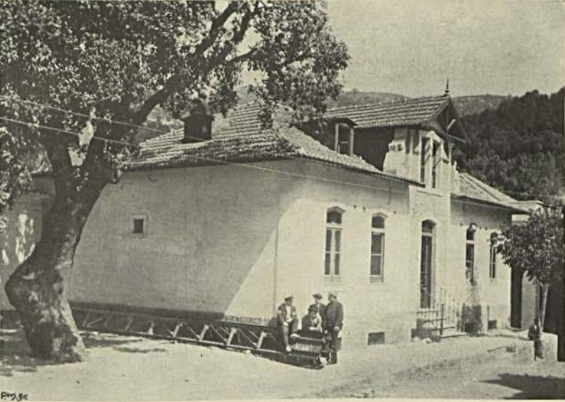 Building of the Central Hotel, part of the Monchique Spa, in southern Portugal. This image was published in the Brasil - Portugal magazine No. 108, of 16th July 1903, and scanned by the Hemeroteca Municipal de Lisboa.